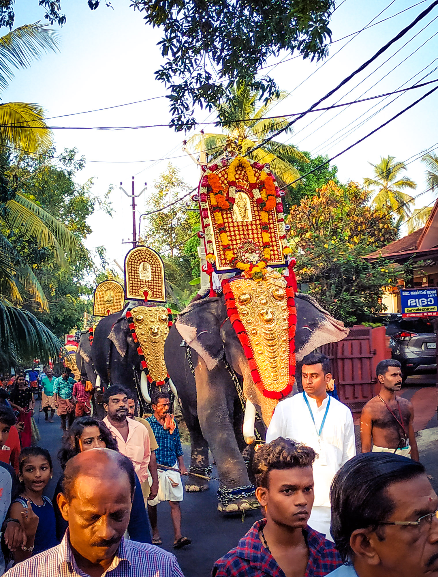 Festival at Parthasarathy Temple, Adoor